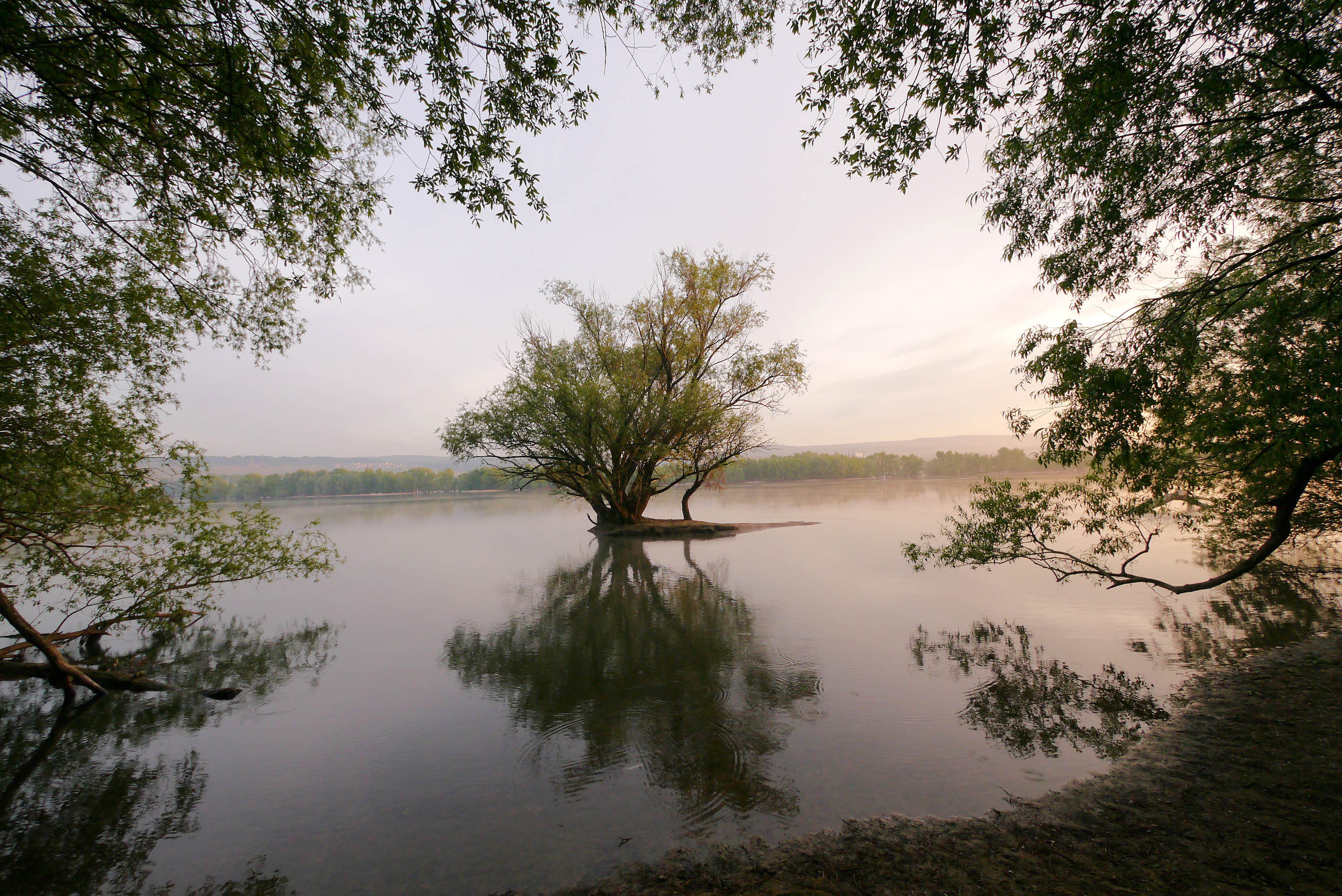 Naturschutzgebiet Fulder Aue-Ilmen Aue, near Mainz, Rhineland-Palatinate. The reserve contains part of the Rhine, the surrounding floodplain and Rhine islands Fulder Aue and Ilmen Aue.